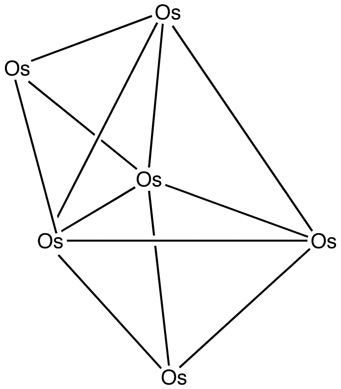 Os cluster corrected